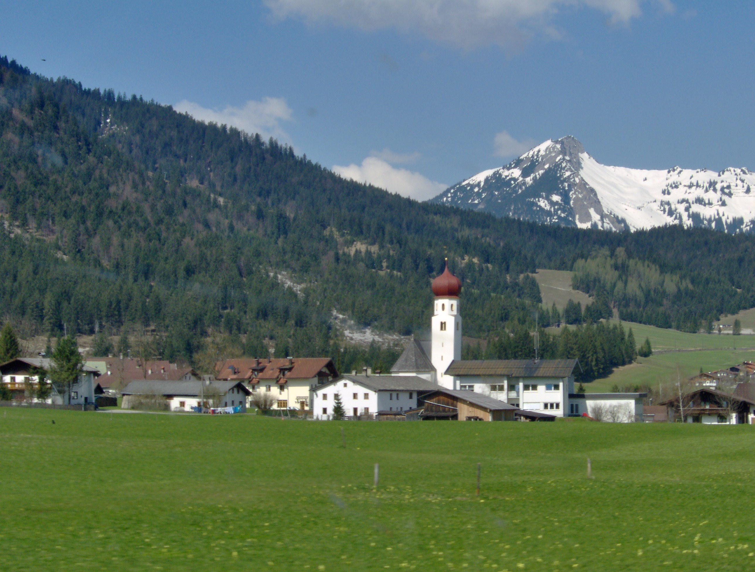 The village of Heiterwang, Tyrol, Austria, seen from the Fernpassstraße (B179)